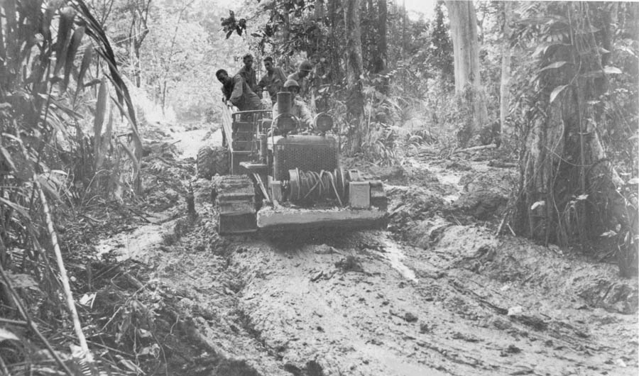 US Army engineers from the 114th Engineer Battalion, Saidor, January 1944